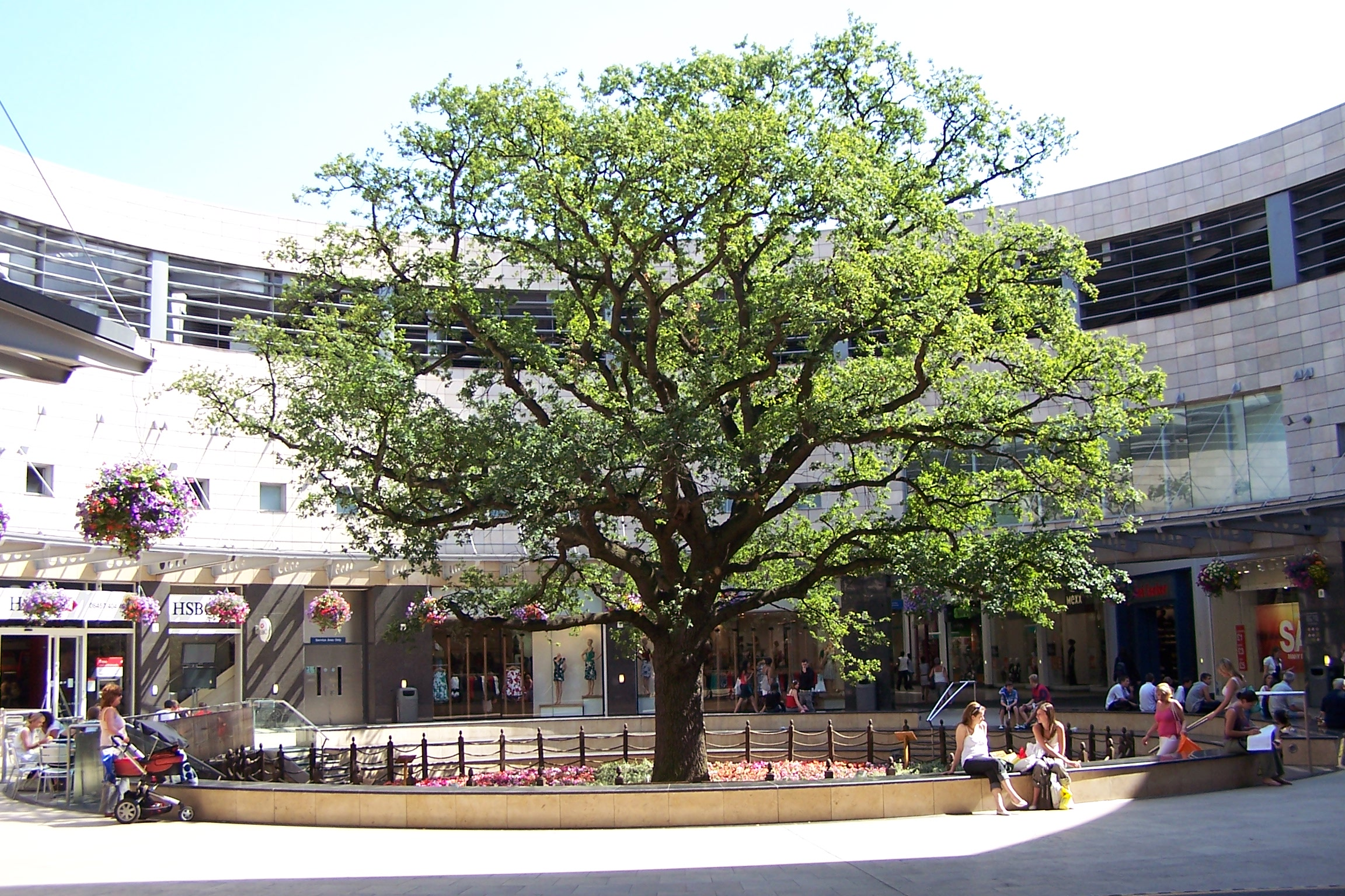 Oak Coart in Midsummer Place shopping centre, Milton Keynes